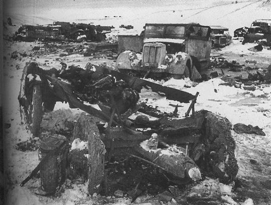 Scanned from John Erickson's Hitler versus Stalin: the Second World War on the Eastern Front in Photographs. Creator not specified.